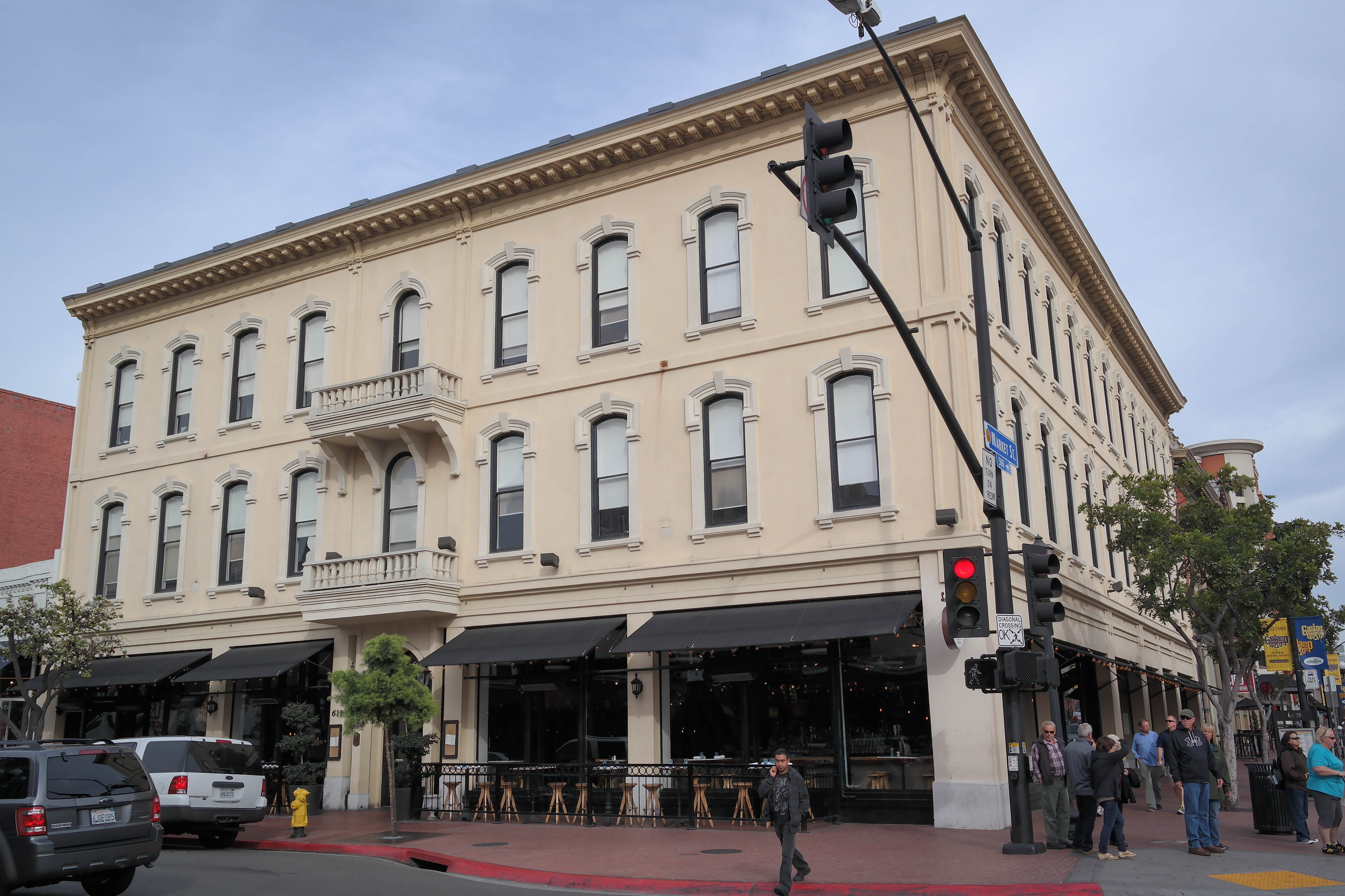 Historic Building Survey plaque: "53 The McGurck Block, 1887. From 1903 to 1984, the Ferris and Ferris Drug Store occupied this building. For a long time, it was San Diego's only all-night drug store and, for a period of time, actor Gregory Peck's father worked as the night druggist. The building was also used as a post office and as a ticket office for the Coronado Ferry. The upper floors of this three-story Italianate Revival building were used for rented rooms and became known as the Hotel Monroe in 1929."